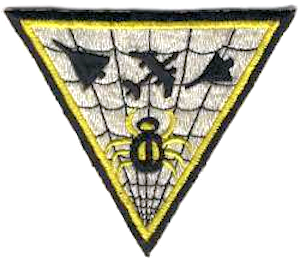 Emblem of the 674th Radar Squadron